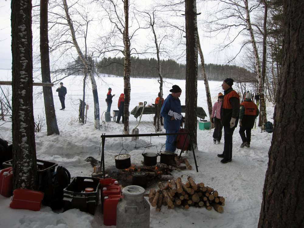 Pyhäsaari isle in Lake Pyhäselkä, ice skiing near Joensuu